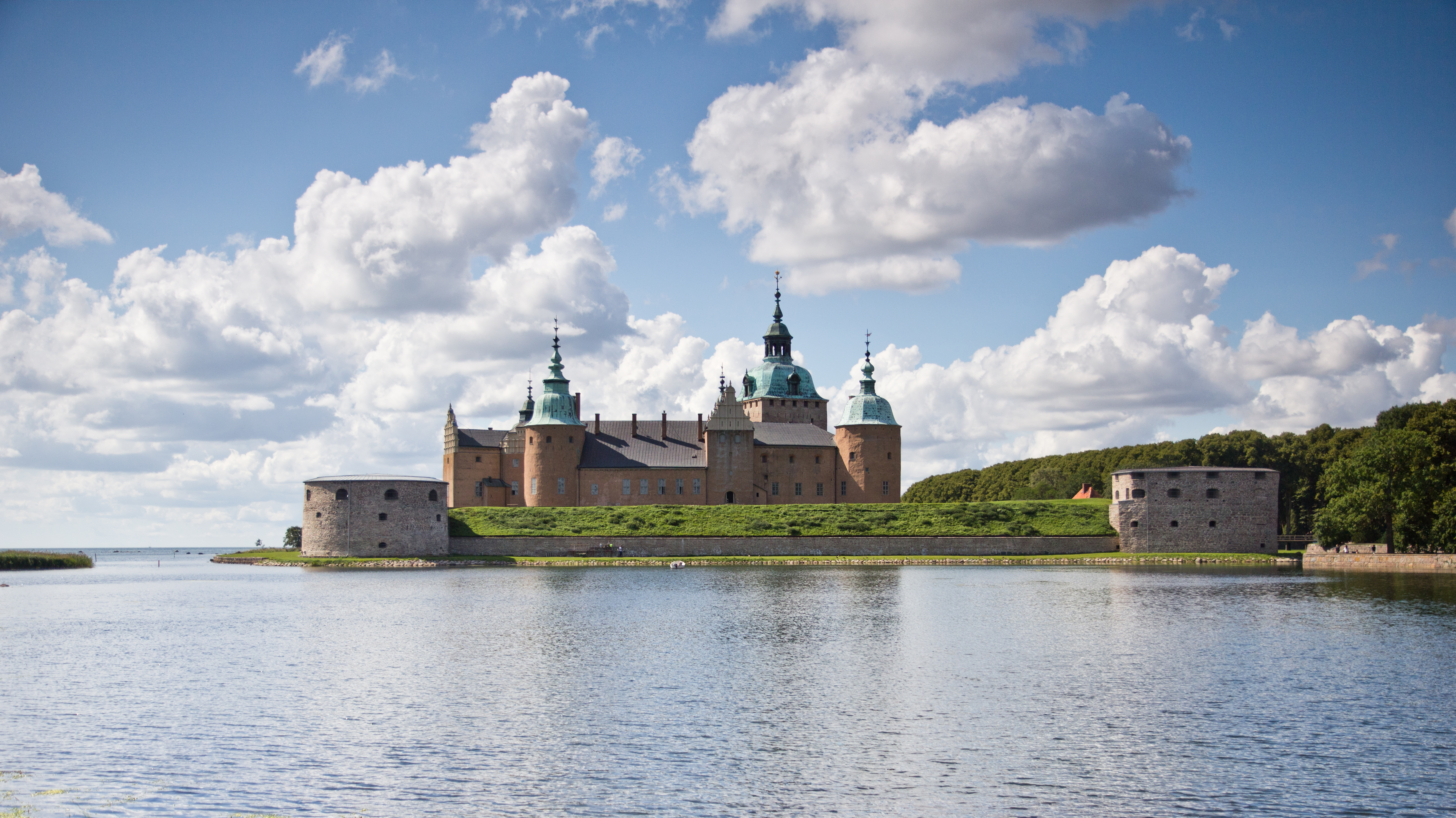 Kalmar Castle, Kalmar, Sweden